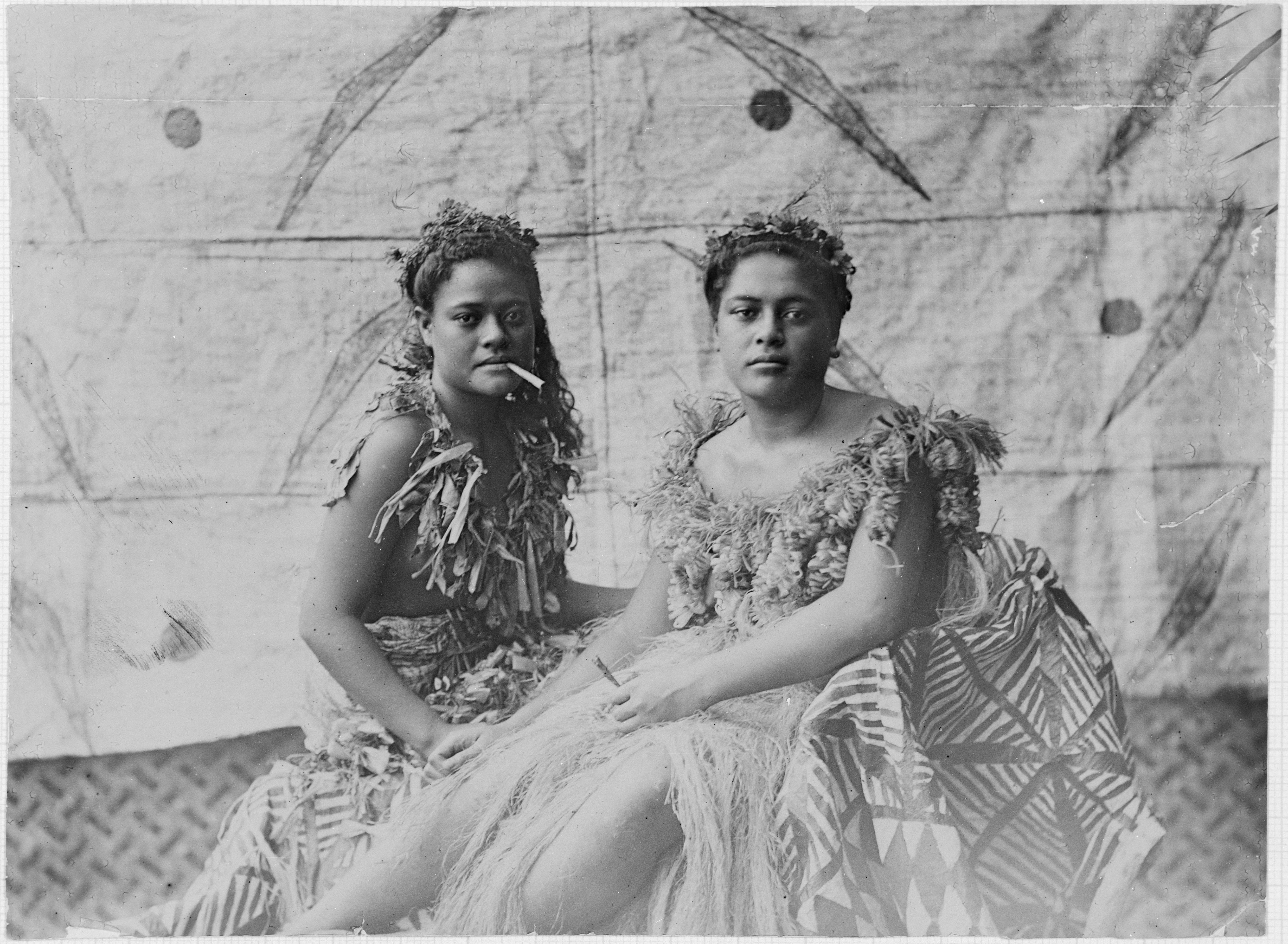 Two Samoan women in traditional dress, [ca 1910s?]. Reference Number: 1/2-115851-F. Portrait of two Samoan women wearing traditional dress, seated in front of a large tapa cloth. One of the women holds a cigarette in her mouth. Photograph taken circa 1910s? by an unidentified photographer.